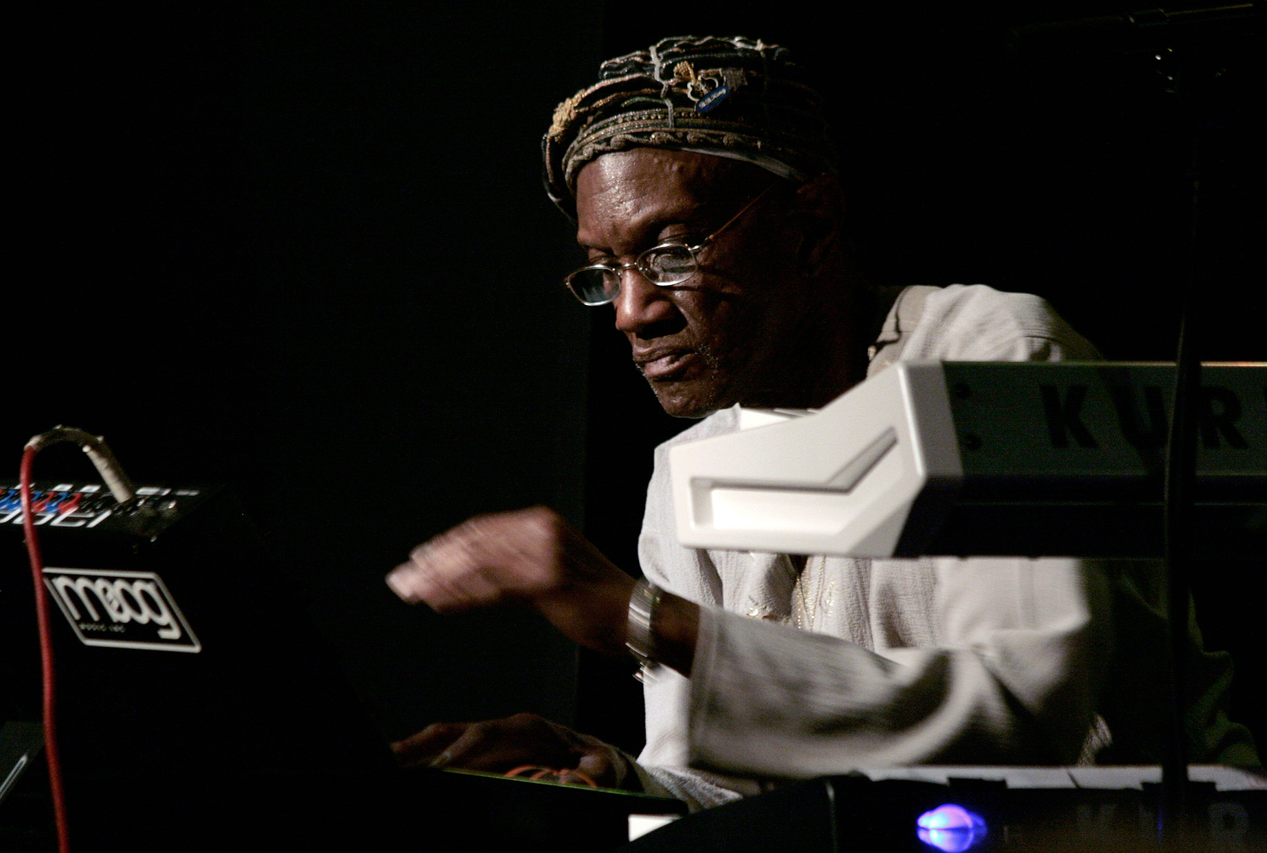 Bernie Worrell; concert with SociaLibrium at the jazz club Porgy & Bess in Vienna